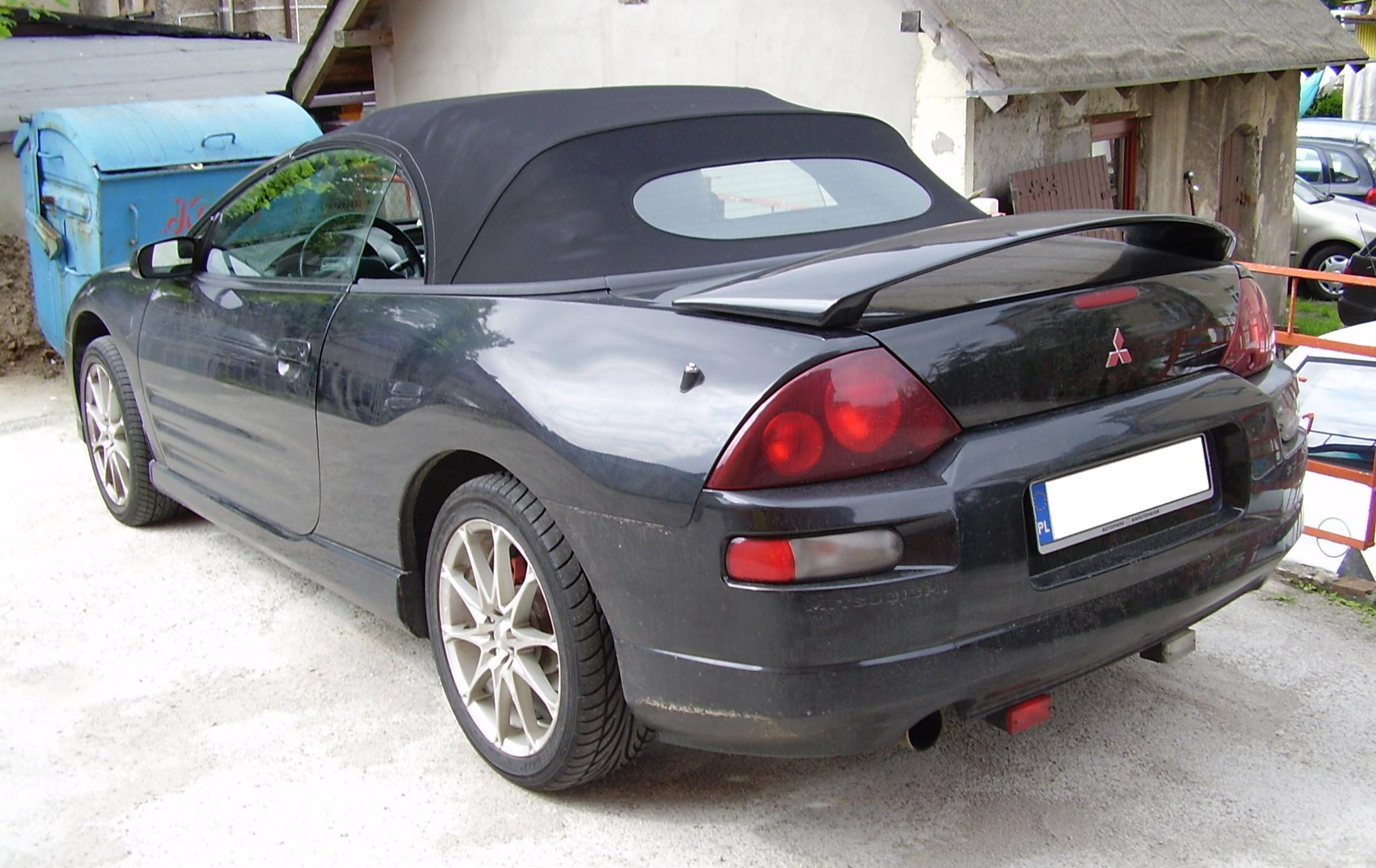 Mitsubishi Eclipse in Międzyzdroje (Poland)